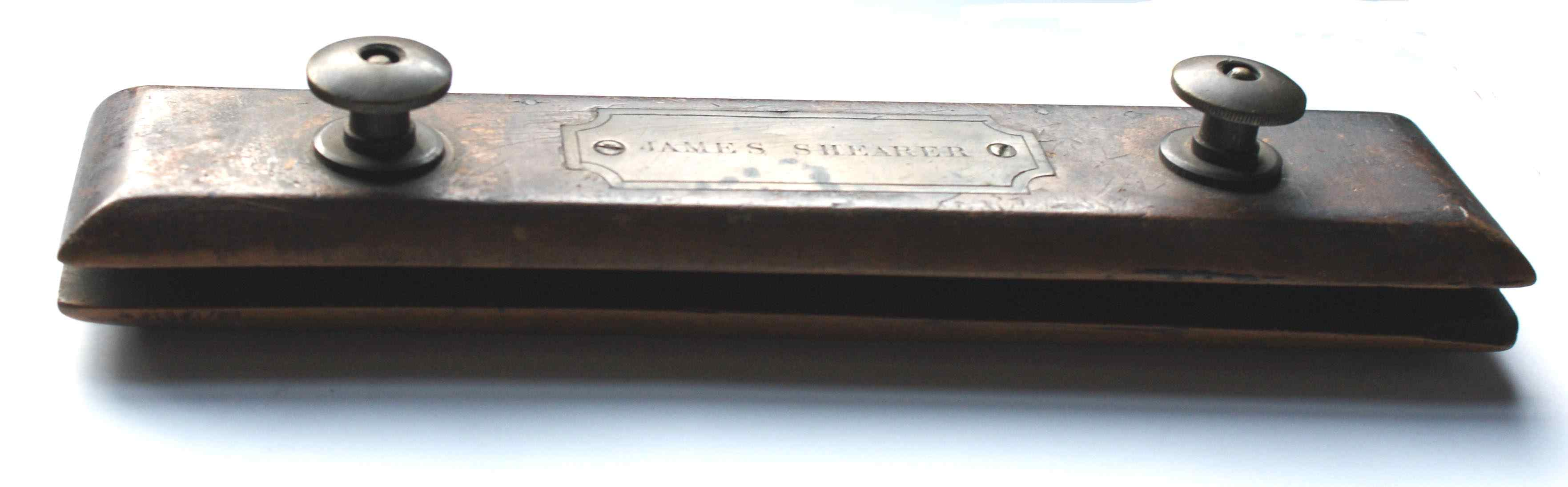 Adjustable wooden bandstick. Two flat pieces of hardwood hinged at back and clamped together with two large screws. Gaps between pieces of wood can be adjusted by turning screws. Used to rub down the 'bands' of a book on the spine to give them a neat sharp edge. Brass name plate on top engraved with 'James Shearer' Accession Number: hh.4719.1.88 Used to rub down the bands on the spine of a book to give them a neat sharp edge. Grooves are different widths to give them a neat sharp edge. Grooves are different widths to fit two different sizes of bands. Edinburgh City of Print is a joint project between City of Edinburgh Museums and the Scottish Archive of Print and Publishing History Records (SAPPHIRE). The project aims to catalogue and make accessible the wealth of printing collections held by City of Edinburgh Museums. For more information about the project please visit